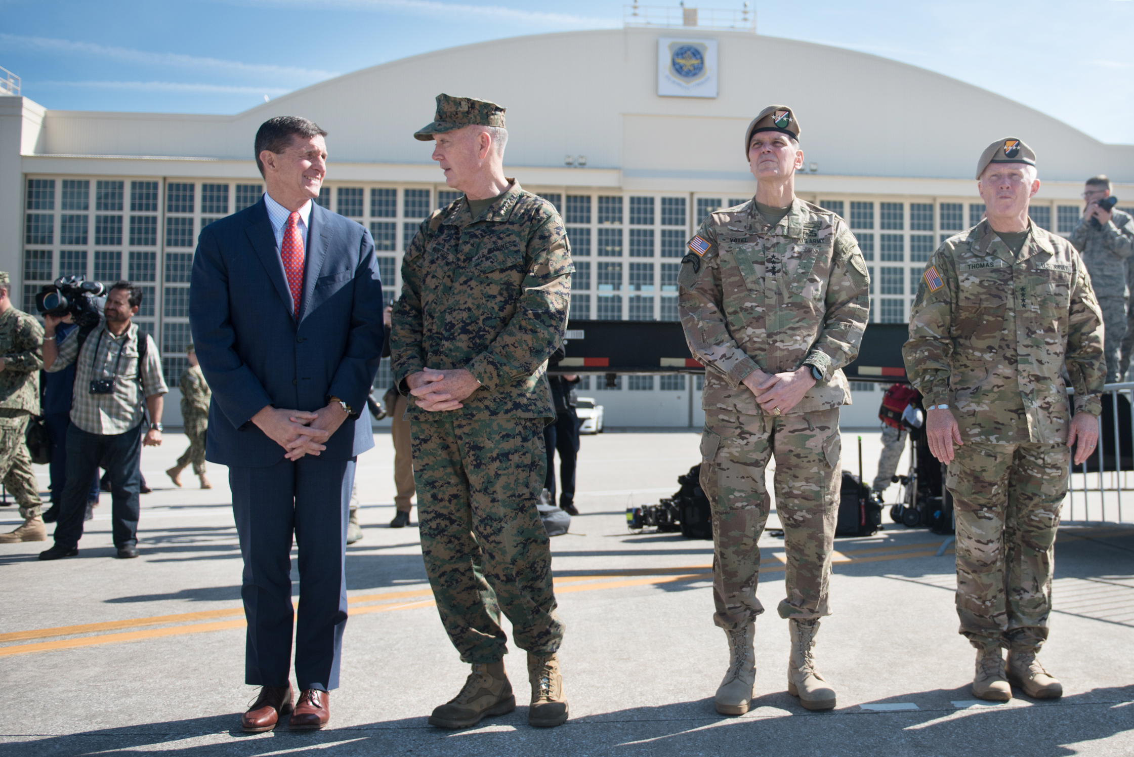 (left to right) National Security Advisor Michael Flynn, Gen. Joseph F. Dunford, the chairman of the Joint Chiefs of Staff, Gen. Joseph Votel, commander of U.S. Central Command Commander, and Gen. Raymond A. "Tony" Thomas, U.S. Special Operations Command Commander, await the arrival of the President at MacDill, AFB, FL, Feb. 6, 2017. President Trump is visiting with senior military leaders to discuss Central Command and Special Operations Command current operations. (DoD photo by D. Myles Cullen/Released)